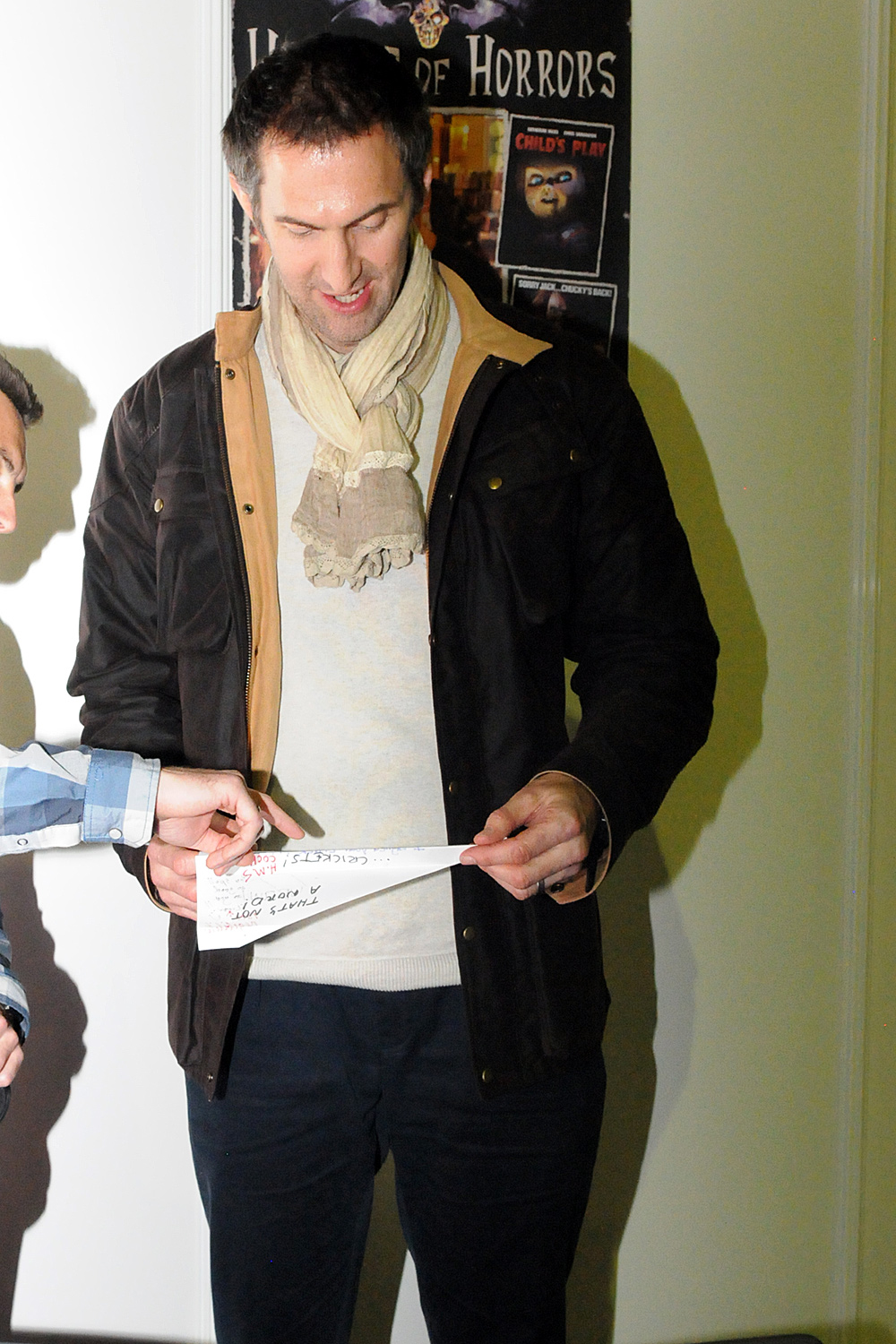 Ian Whyte @ Weekend Of Horrors 11 - Turbinenhalle Oberhausen, Germany 2013